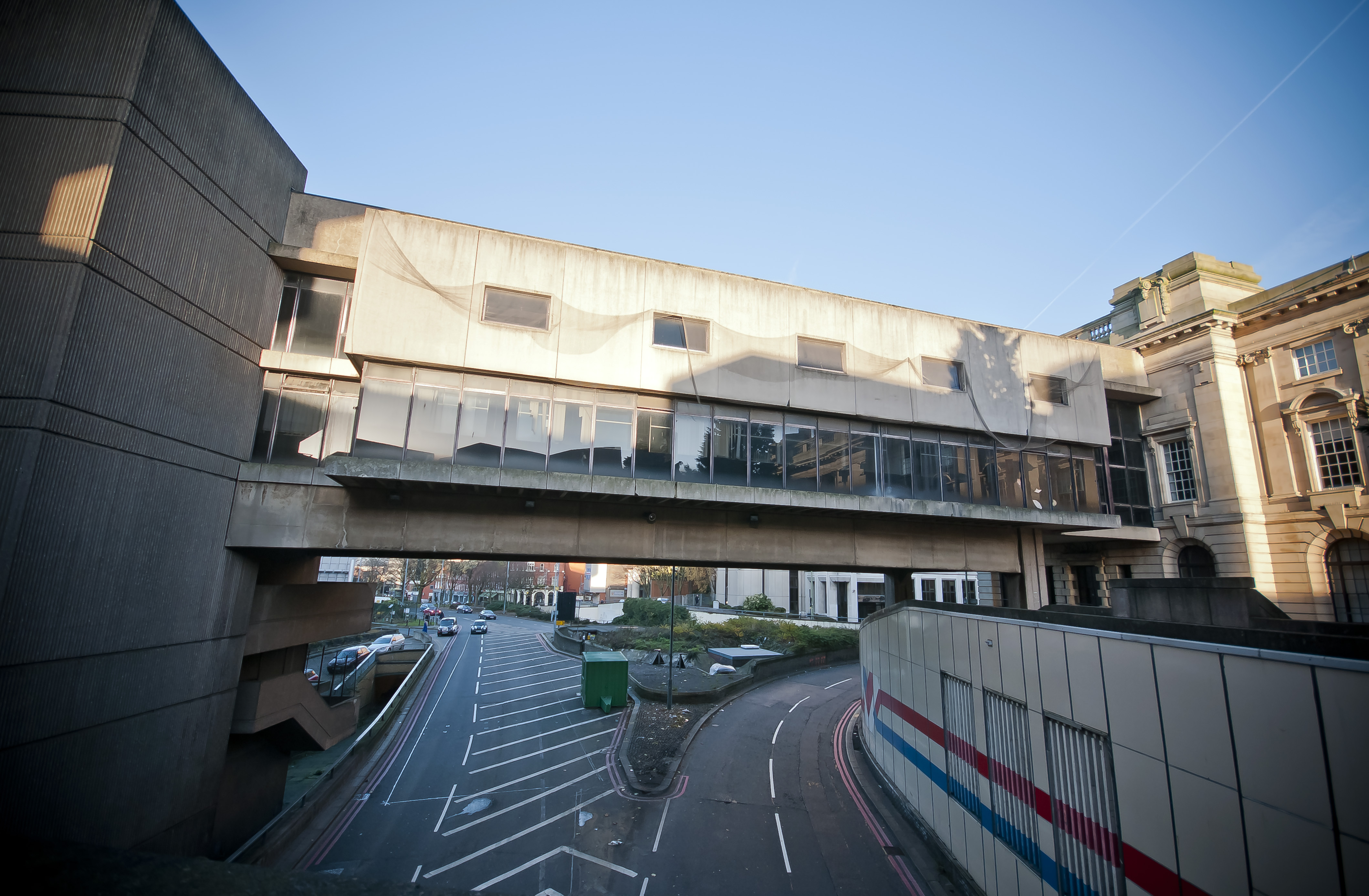 Congreve House connecting Birmingham Central Library to the Birmingham Museum and Art Gallery. Built as part of the masterplan for Paradise Circus in 1971-74 by John Madin.